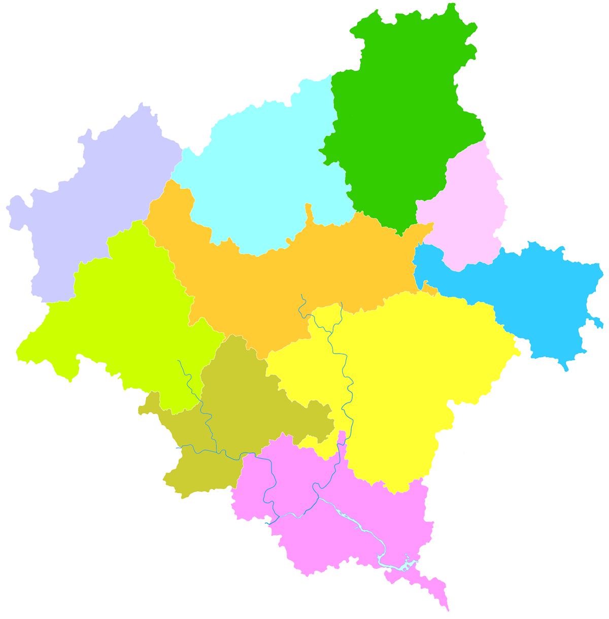 administrative division of Nanping City, Fujian, China